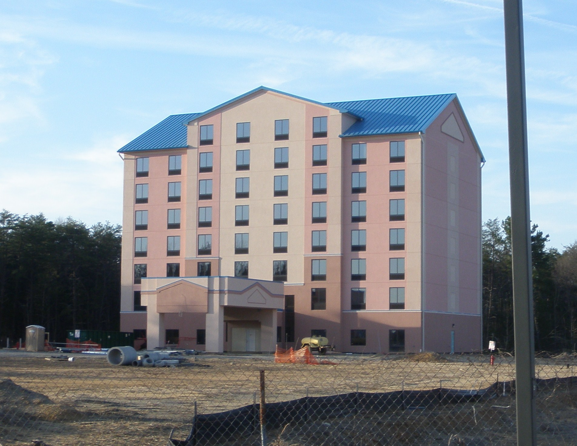 Thornburg, Virginia is an unincorporated community along US-1, but also has an extension to nearby 95 exit ramp along Mudd Tavern Rd, where this mid-rise hotel was built in 2010.